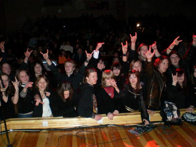 Публика конкурса «Рок-Февраль», 2006 год